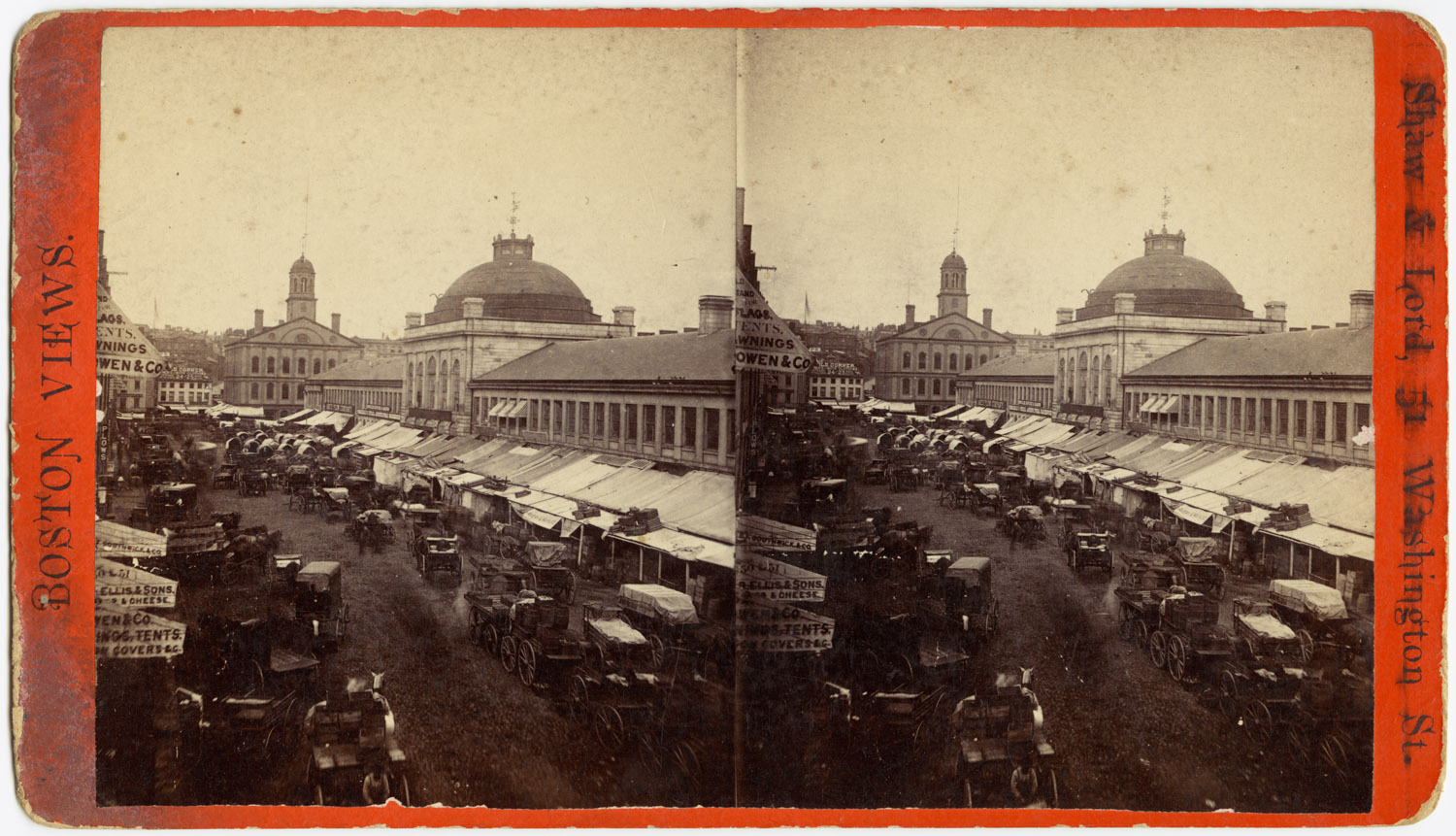 Accession No.: 06_11_000116 Title: Faneuil Hall and Quincy Market Series: Boston Views Local Subject: Commercial Buildings Subject: Boston (Mass.) Publisher: Shaw & Lord Format: Sterographs BPL Department: Print |Source=Faneuil Hall and Quincy Market |Date=2007-10-29 14:59 |Author=BPL